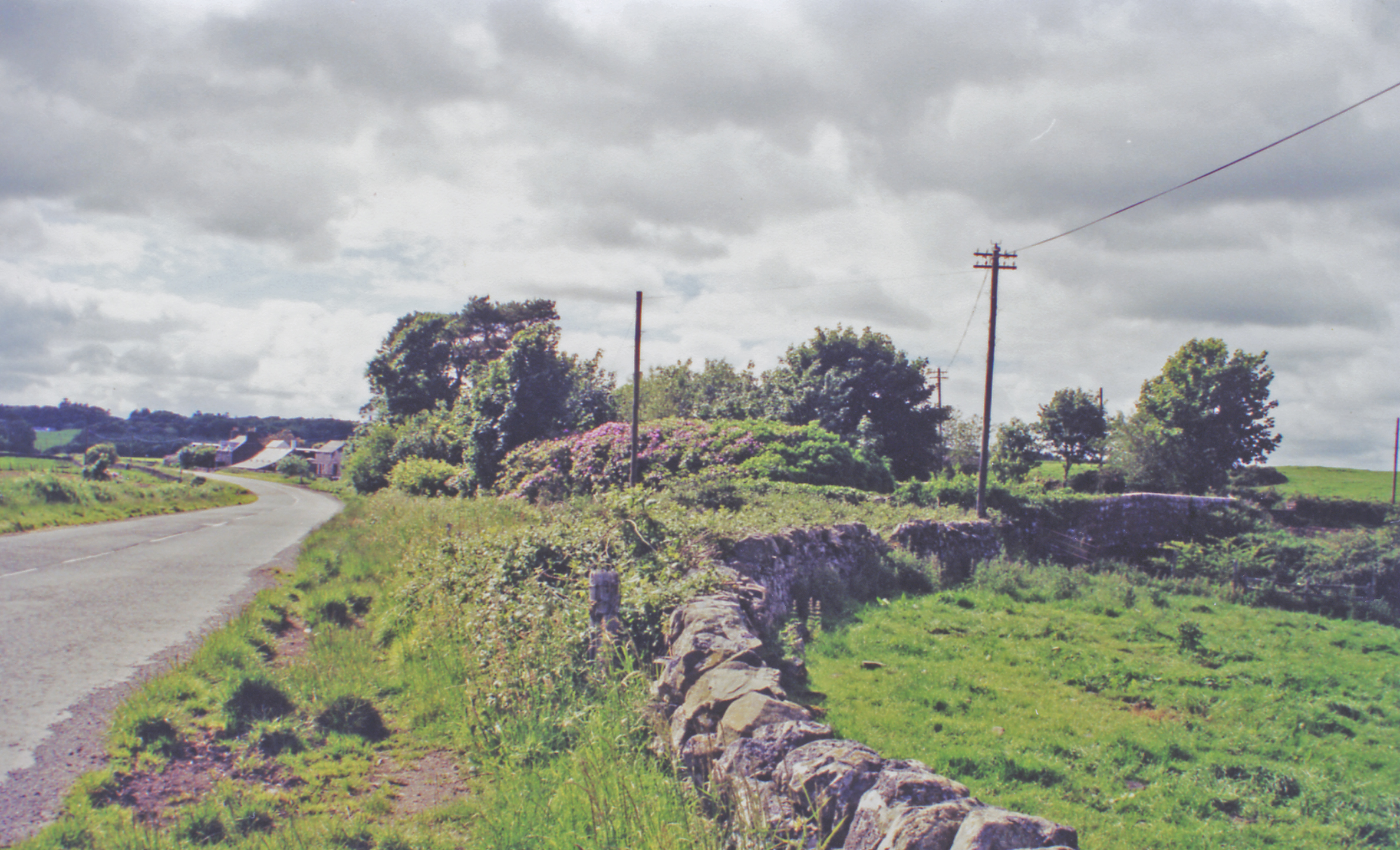 Westward on B733 at site of Kirkcowan station, 2000. The station had been closed when the whole main line Dumfries - Castle Douglas - Challoch Juncton, the Ports Line to Stranraer, was closed from 14/6/65.